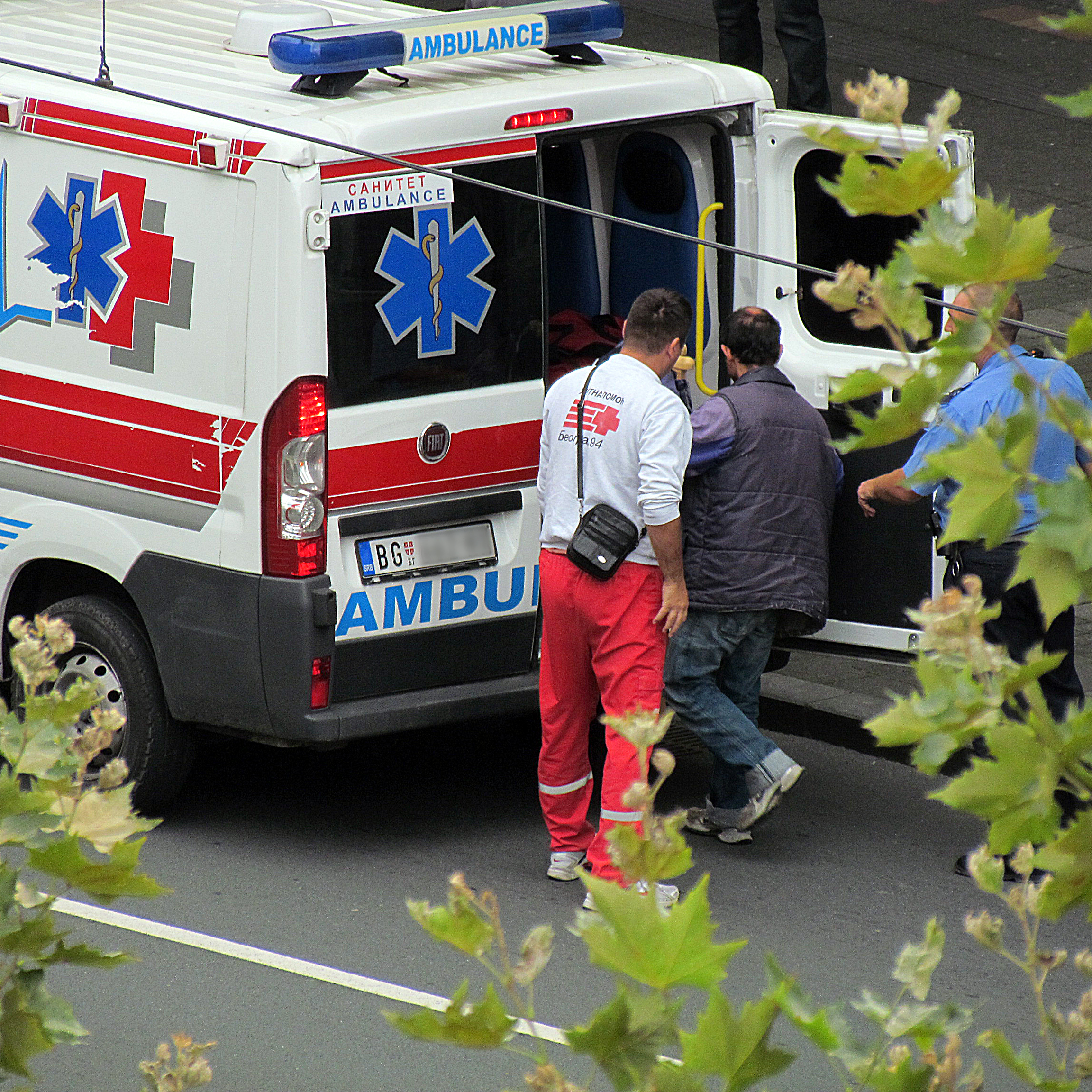 Medical emergency in the street of Belgrade